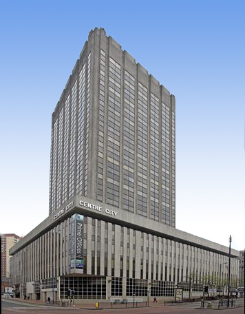 Former LSBF Birmingham Campus